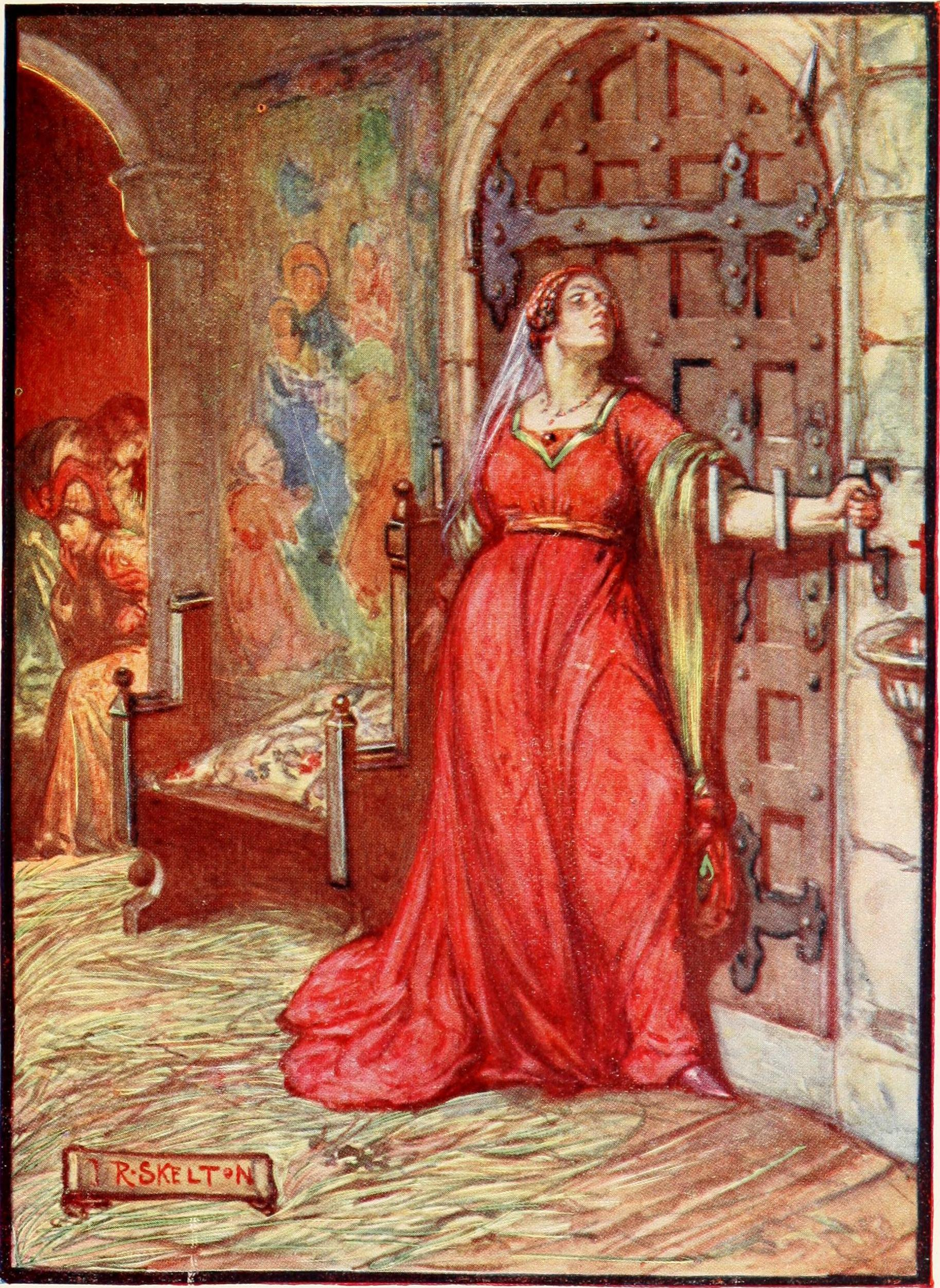 Scotland's story : a history of Scotland for boys and girls by Marshall, H. E. (Henrietta Elizabeth), b. 1876 Published 1907 SHOW MORE List of Kings from Duncan I.: p. 419-421 Publisher London : T.C. & E.C. Jack Pages 496 Possible copyright status NOT_IN_COPYRIGHT Language English Digitizing sponsor MSN Book contributor New York Public Library Collection newyorkpubliclibrary; americana Full catalog record MARCXML [Open Library icon]This book has an editable web page on Open Library.